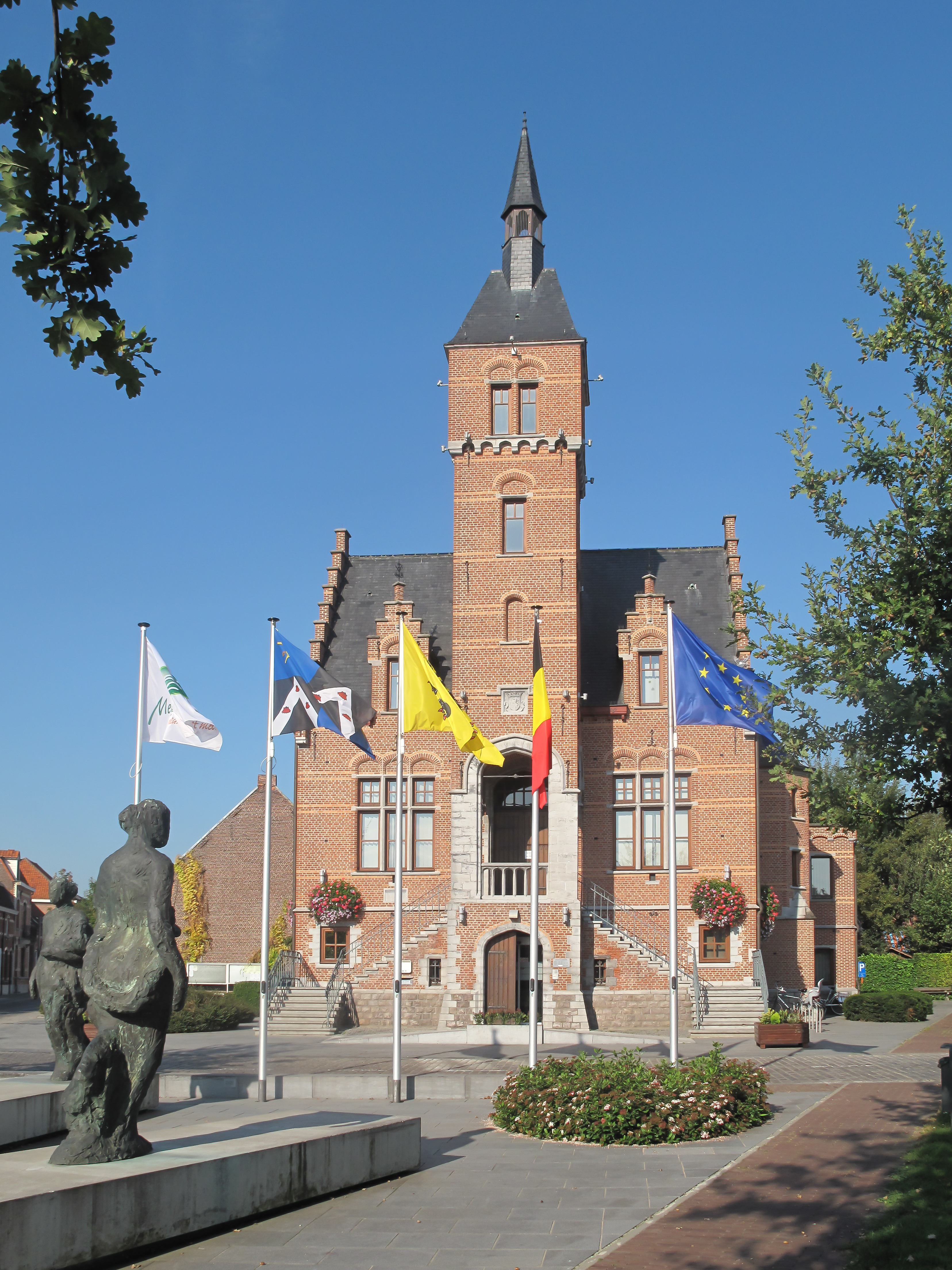 Lovendegem, monumental house